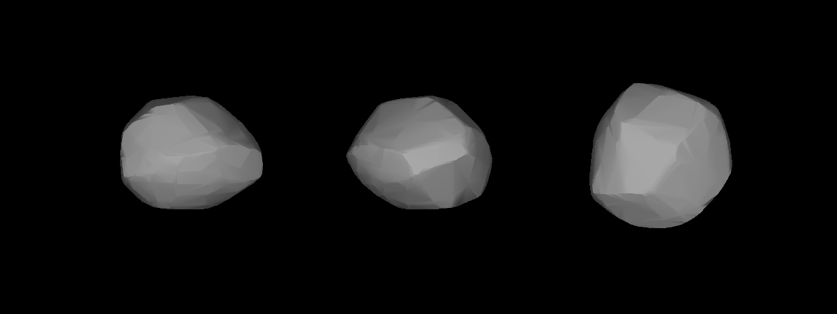 A three-dimensional model of 165 Loreley that was computed using light curve inversion techniques.